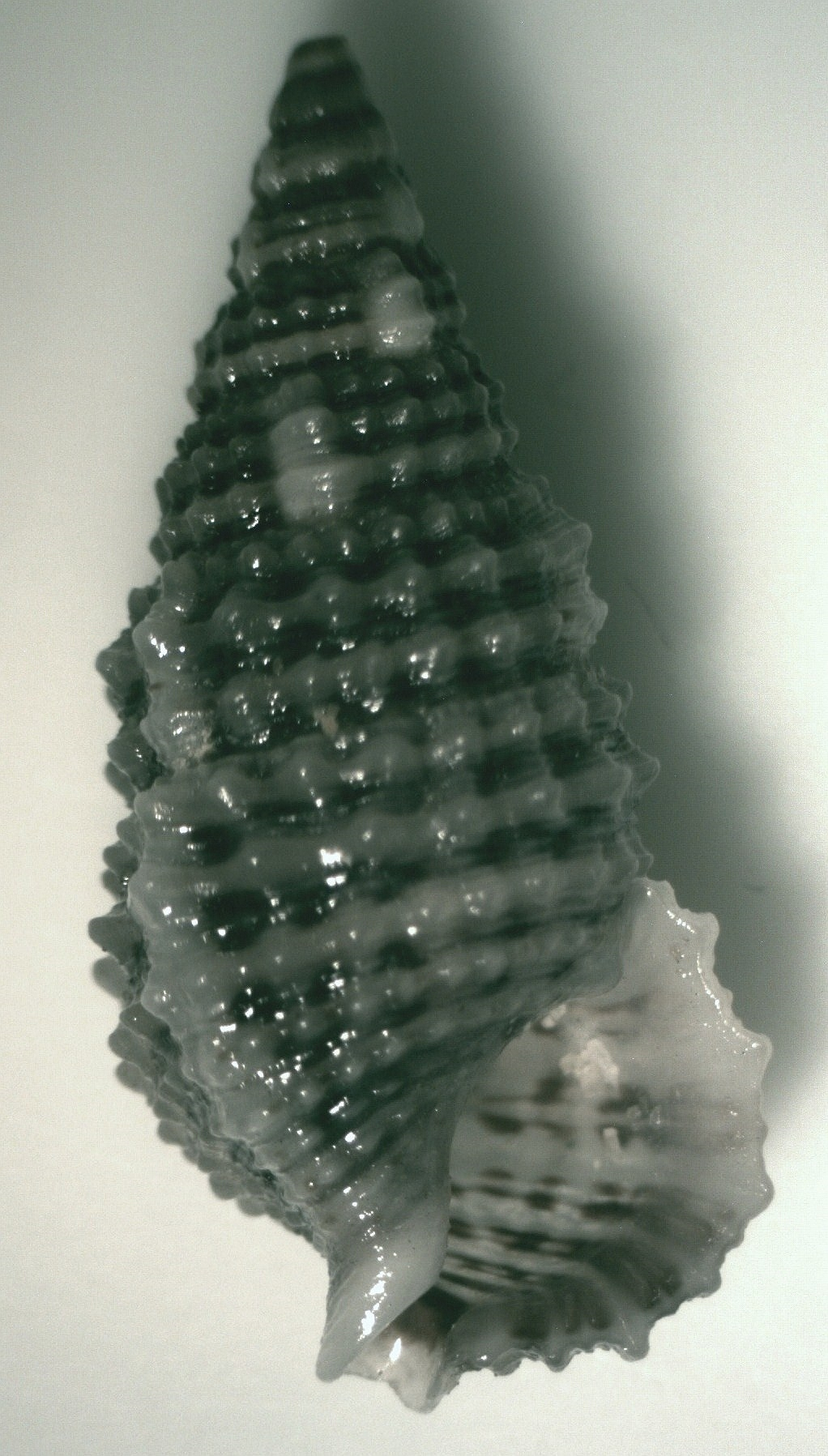 Cerithium tenellum G.B. Sowerby II, 1855, a sea snail in the family Cerithiidae; Philippines